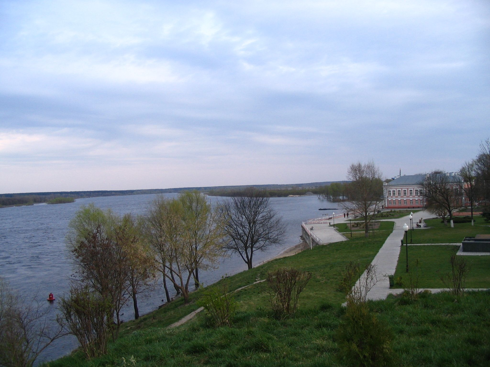 Levee of Dnieper in Loyew, Belarus